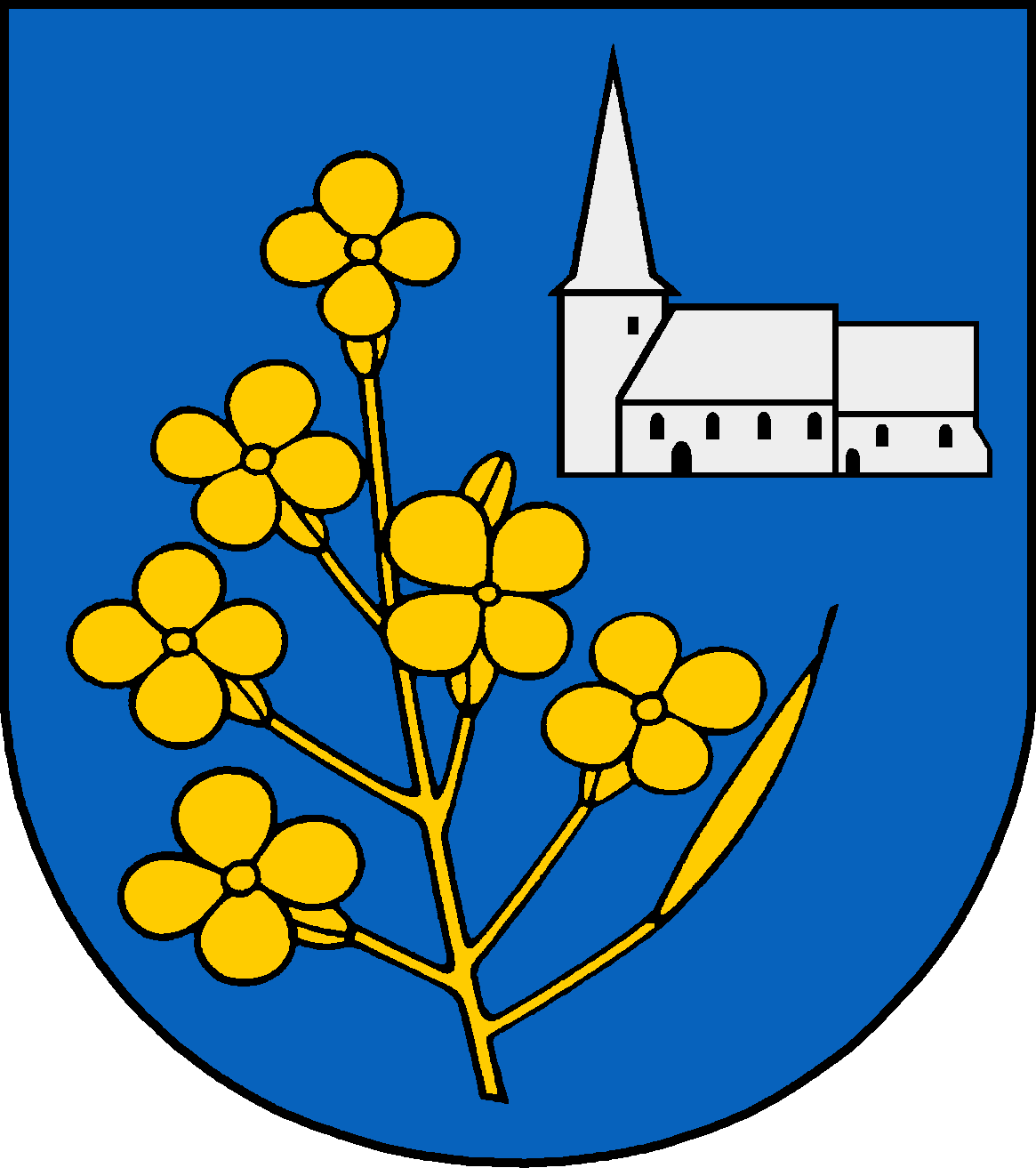 Coat of arms of the municipality Pronstorf in Schleswig-Holstein, Germany.